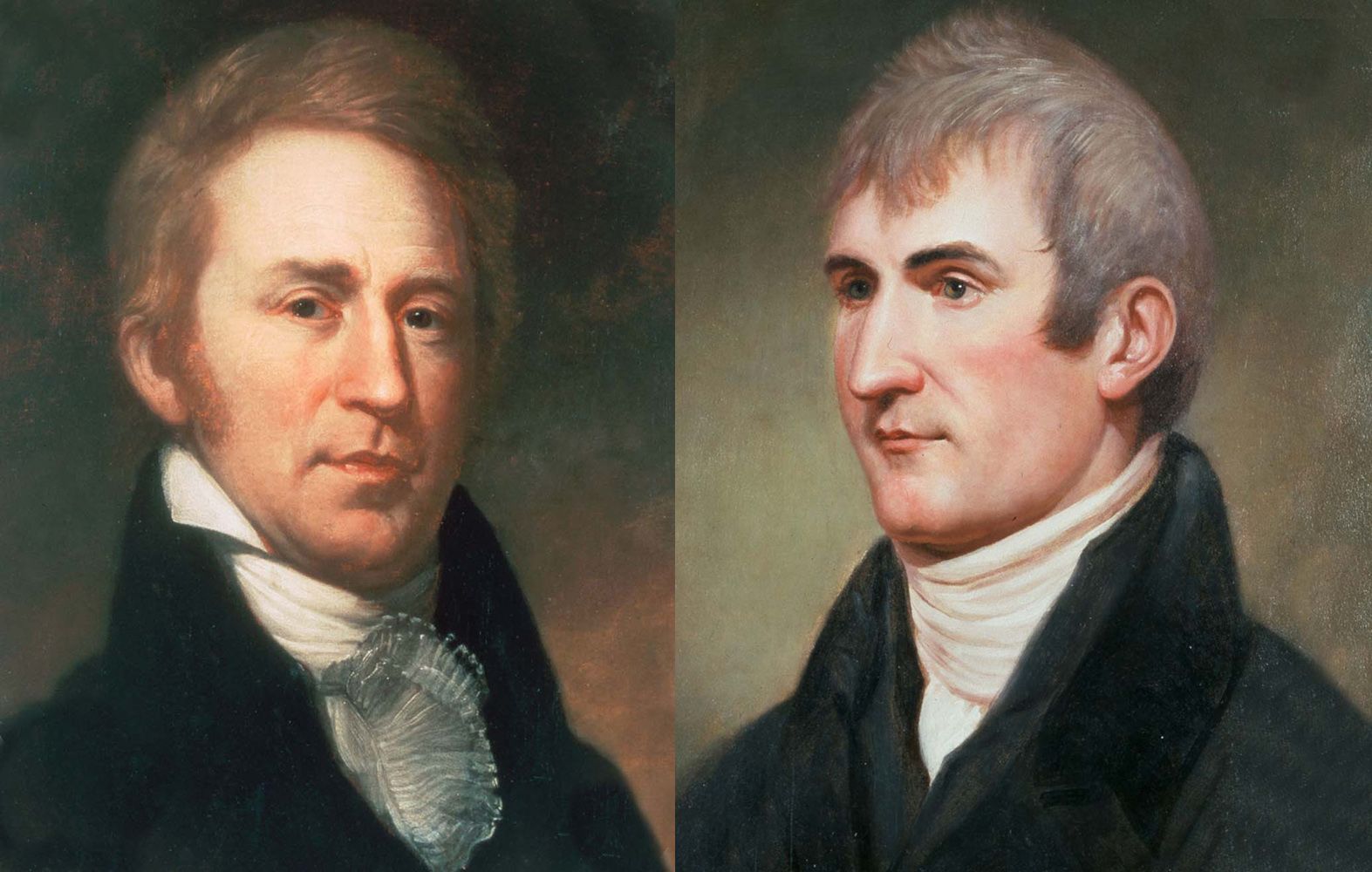 Portrait of Meriweather Lewis and William Clark